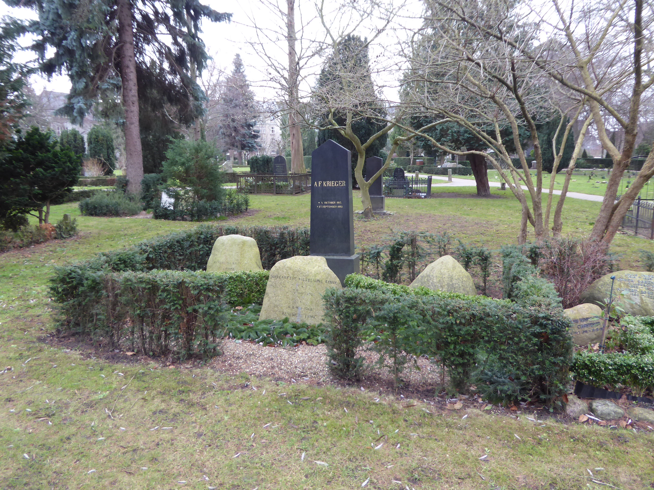 Grave of the government minister Andreas Frederik Krieger (1817-1893) at Holmens Kirkegård in Copenhagen.